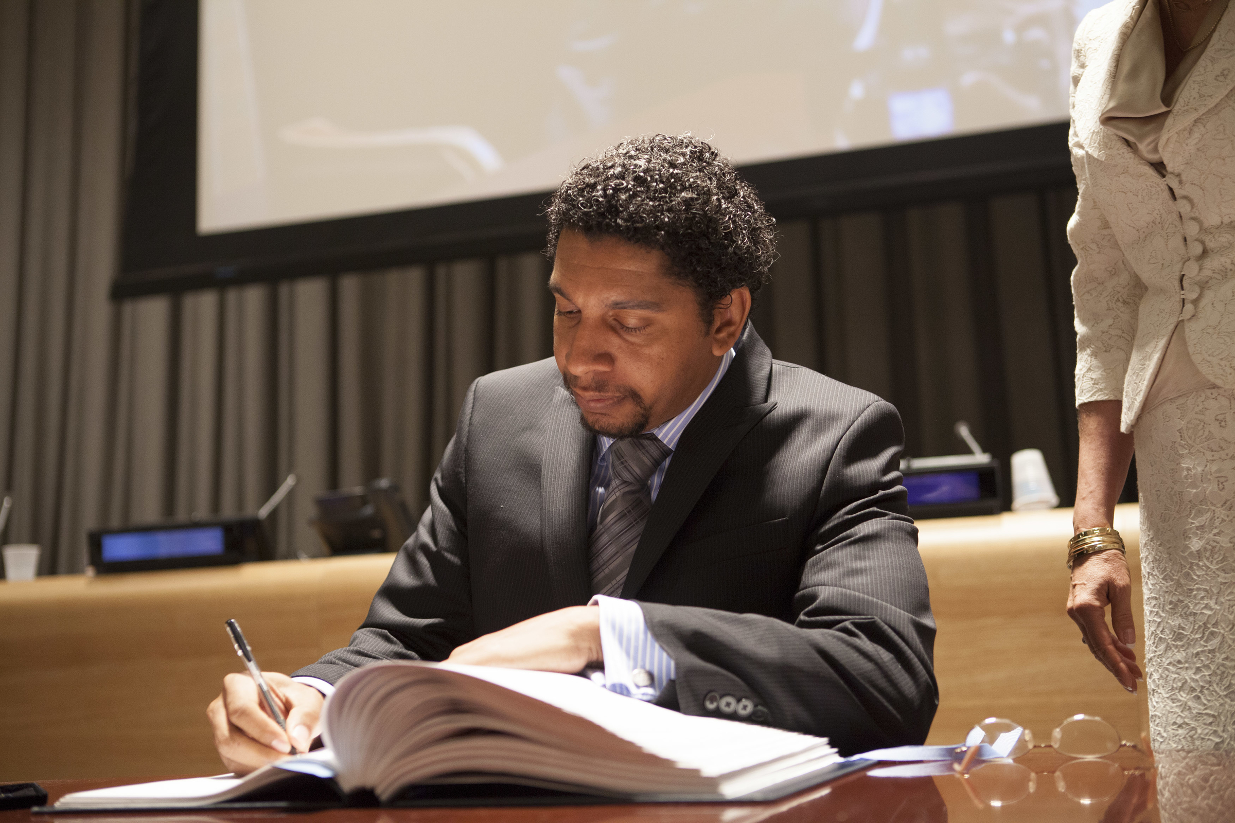 Camillo Gonsalves at U N headquarters